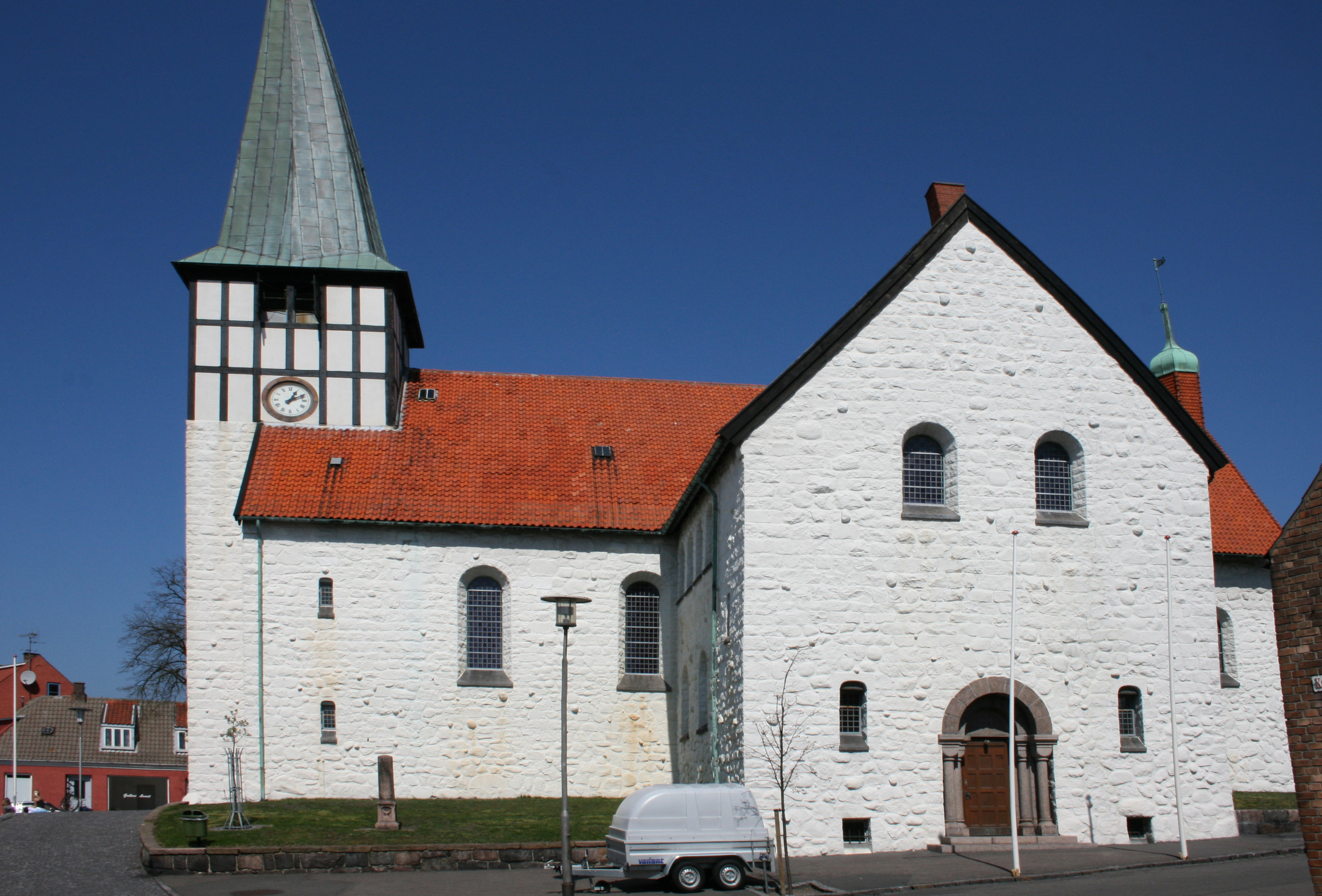 Sct.Nicolai Kirke